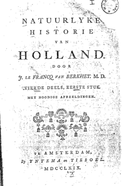 Johannes le Francq van Berkhey - Natuurlyke historie van Holland, Yntema en Tieboel, Amsterdam, 1769 - title page